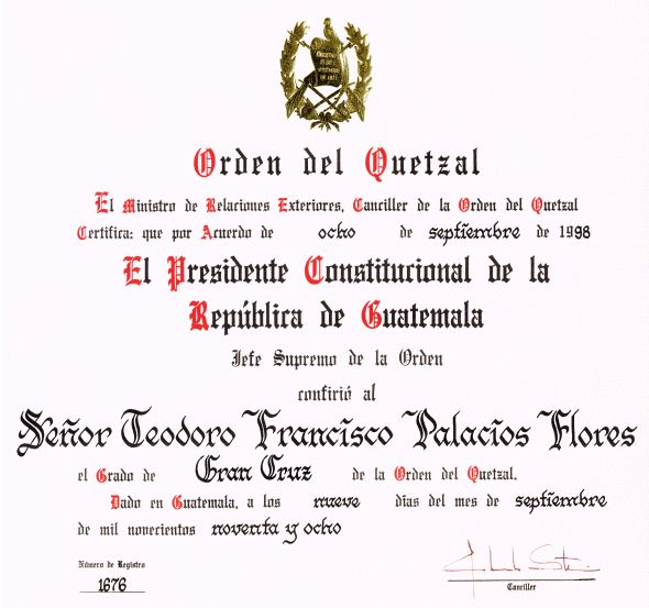 Teodoro Francisco Palacios Flores diploma creating him a Grand Cross of the Order of the Quetzal (Guatemala)